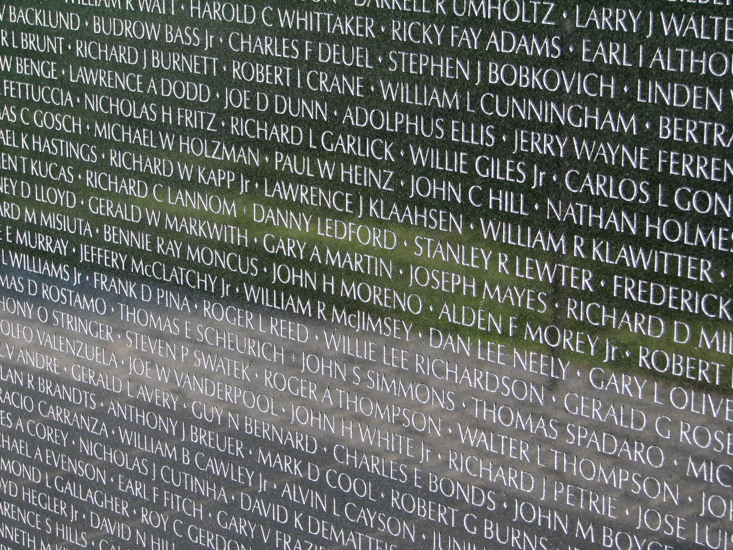 Names of Vietnam veterans at Vietnam Veterans Memorial in Washington, D.C.